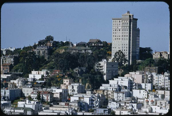 Description: Toward top of Russian Hill Creator: Cushman, Charles Weever, 1896-1972 View source image or order reproductions . More information on the commercial rights for this photo . Part of Charles W. Cushman Collection Indiana University, Bloomington. University Archives . Brought to you by IMLS Digital Collections and Content . Unrestricted access; use with attribution.